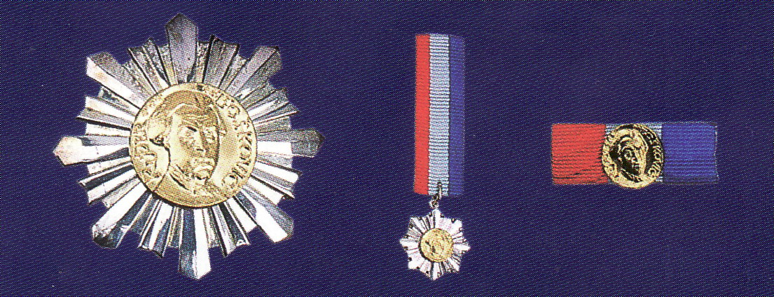 Badge and Ribbon of Order of Danica Hrvatska with the face of Ruđer Bošković